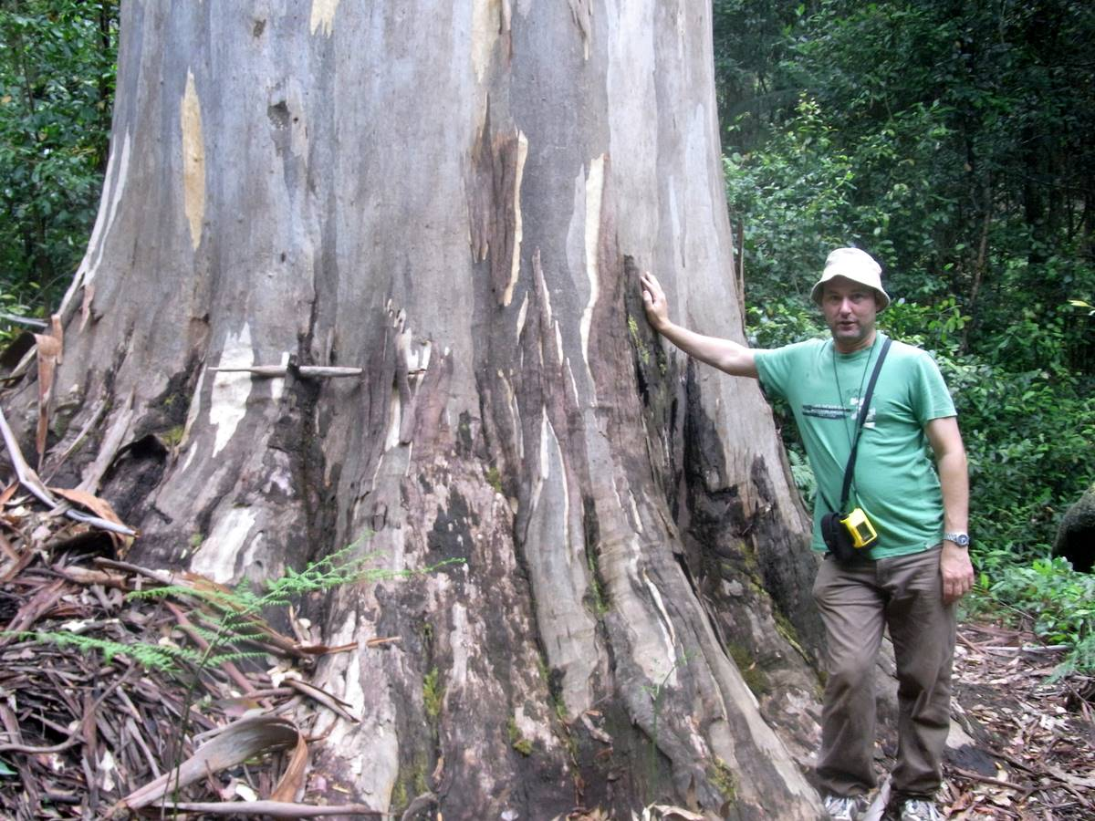 Dr. Dean Nicolle, (eucalyptus scientist) and Eucalyptus deanei, measured at 71 metres tall. Woodford, Blue Mountains National Park, Australia